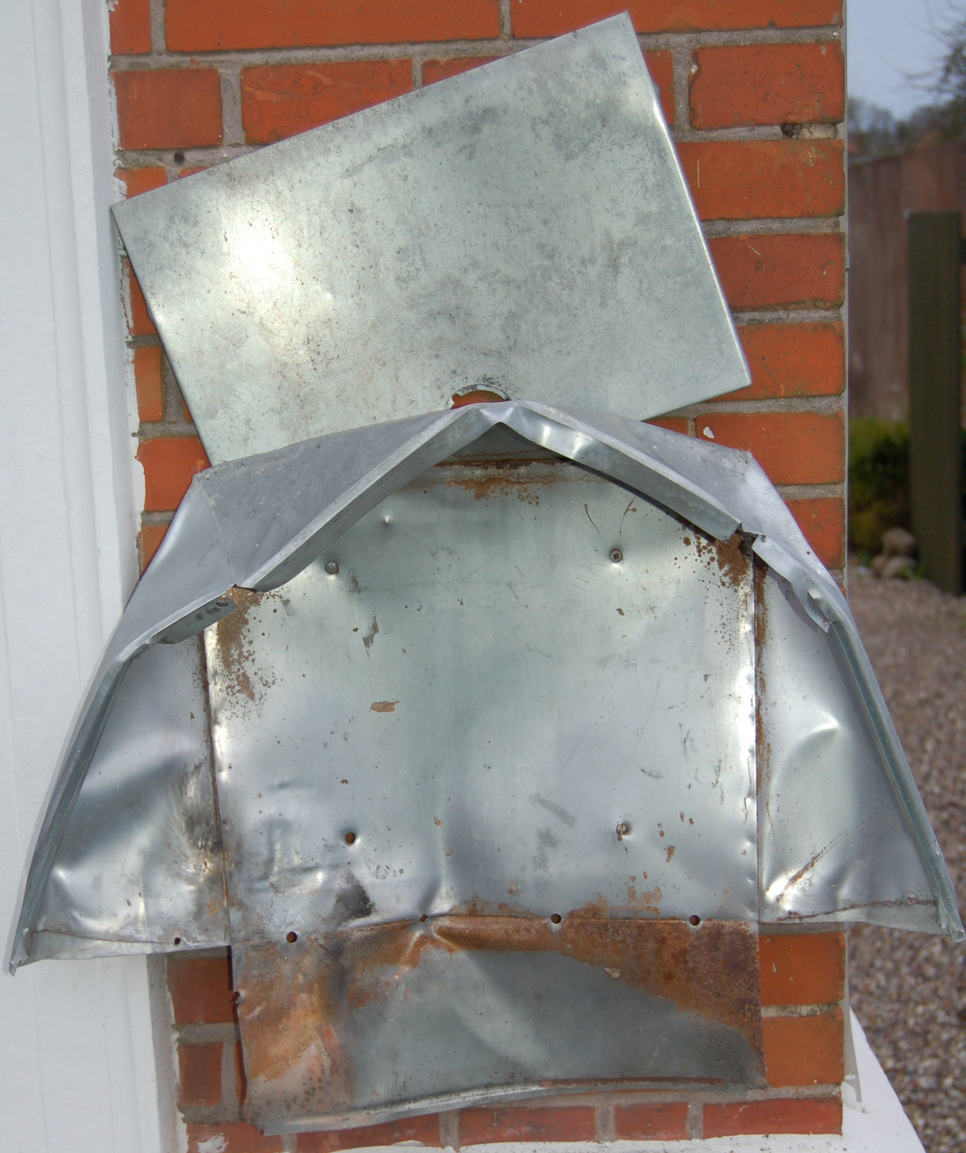 A blown-up letterbox mounted on a brick wall in Denmark